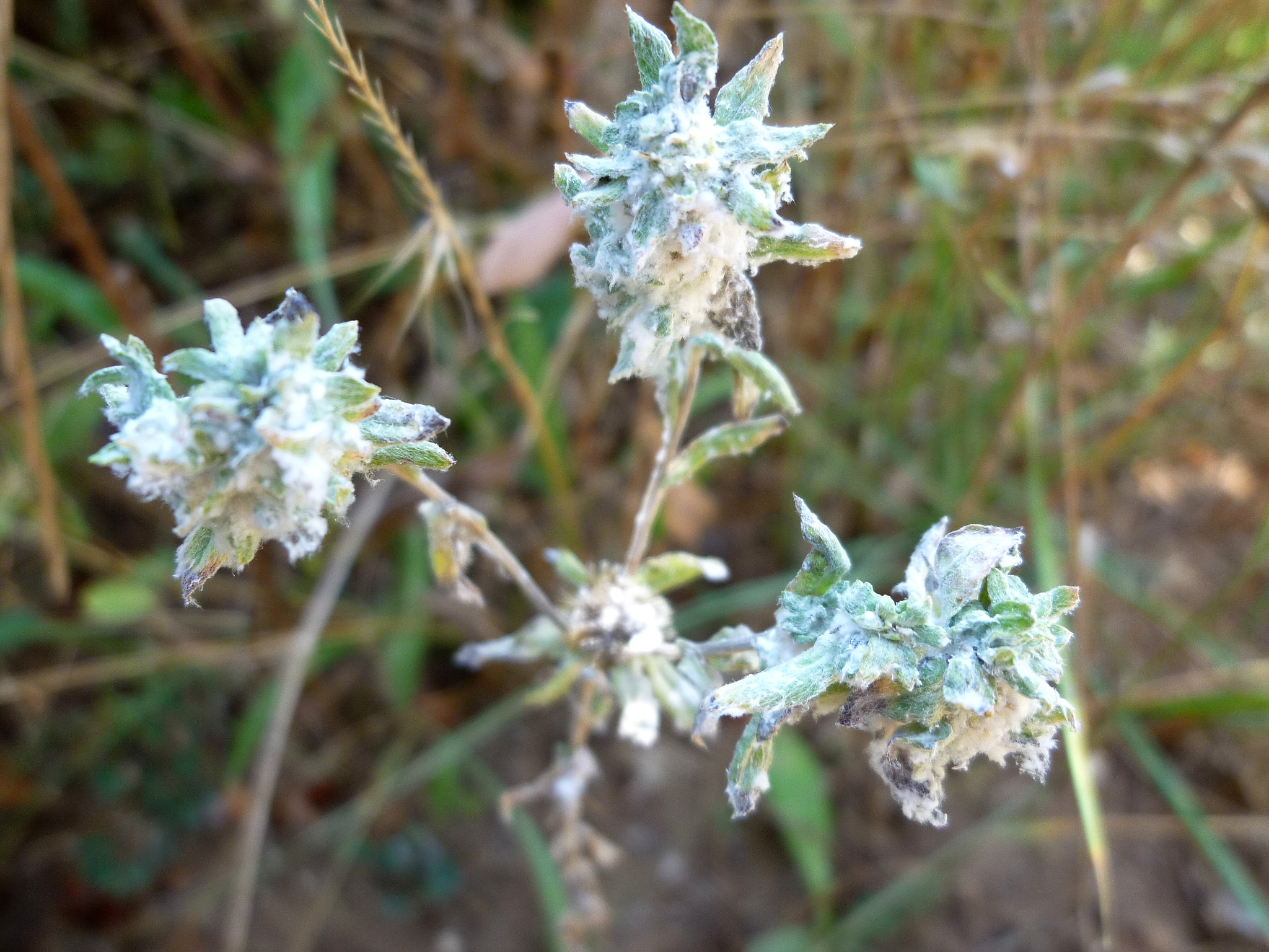 Filago pyramidata. In Torà (Segarra- Catalunya). On 570 m. altitude